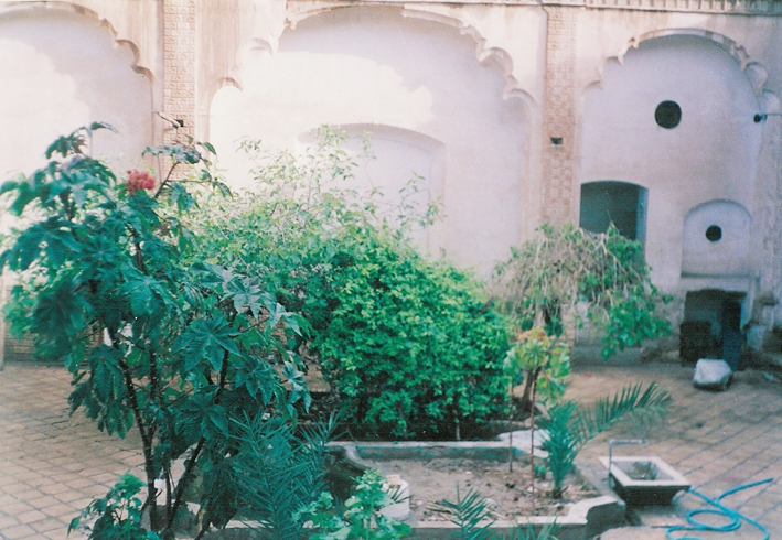 Purhakimi House - Kashan